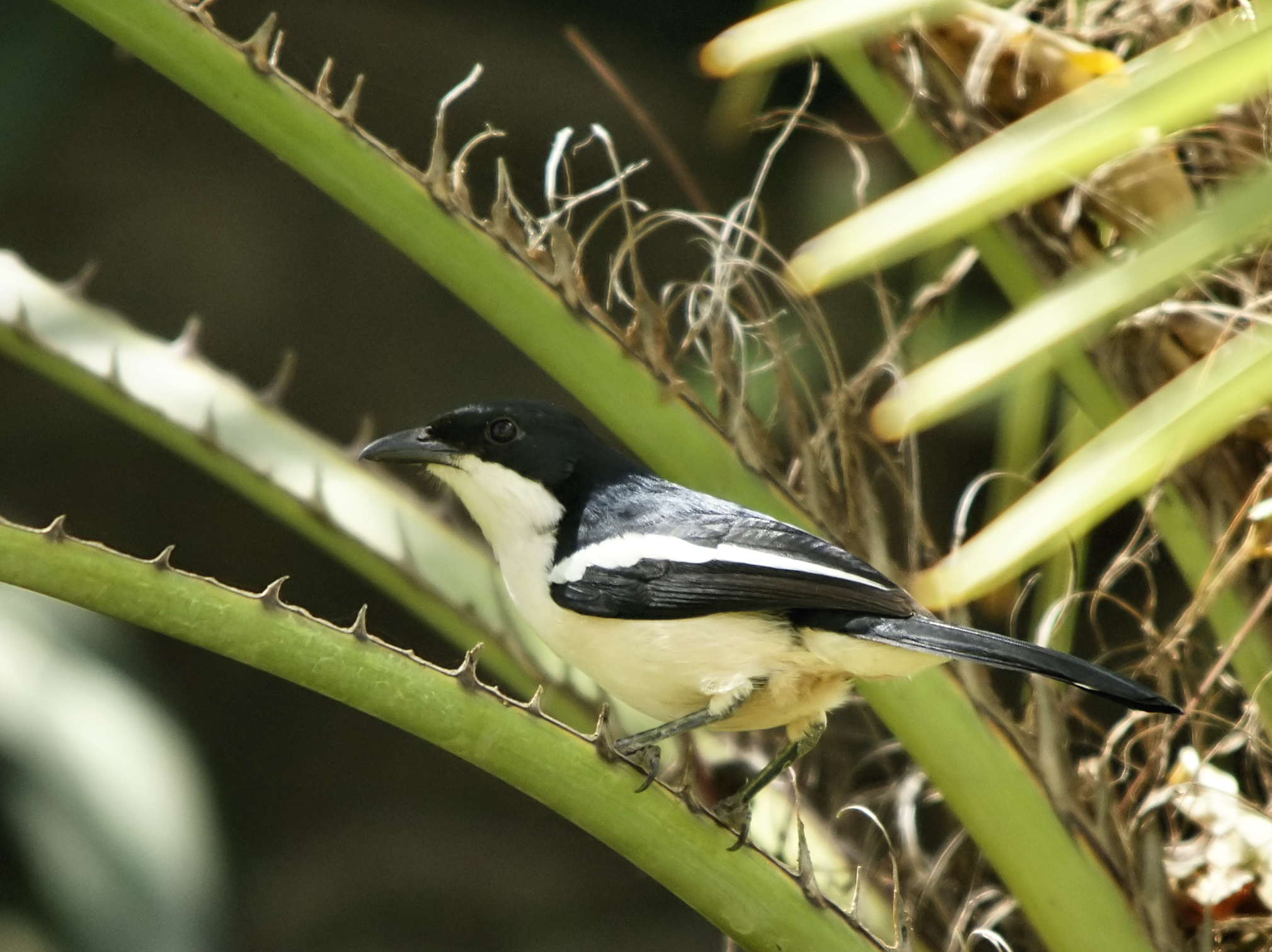 A Tropical boubou (Laniarius major subsp. mossambicus) photographed at Makeni near Lusaka in southern Zambia